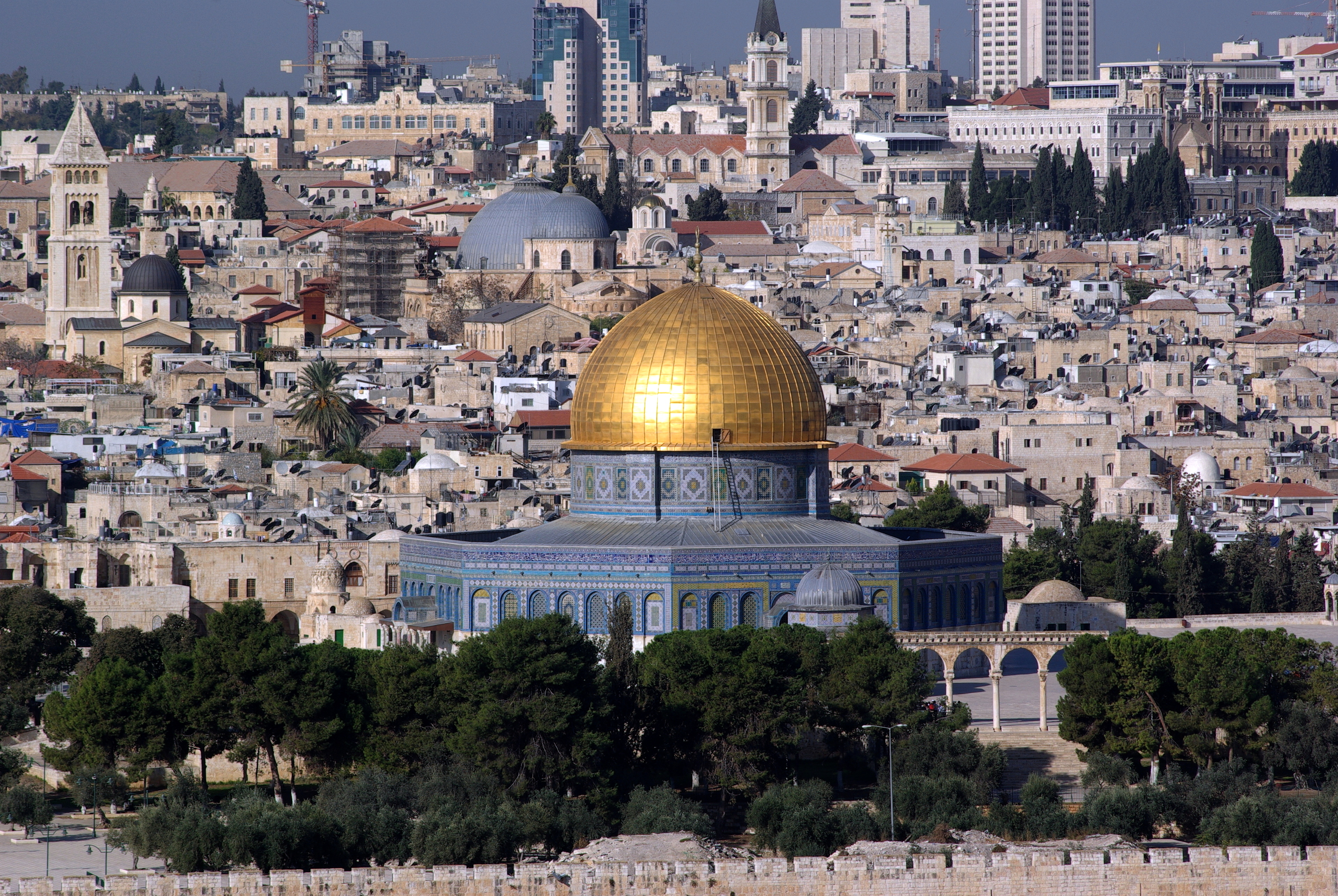 Jerusalem, Dome of the rock, in the background the Church of the Holy Sepulchre